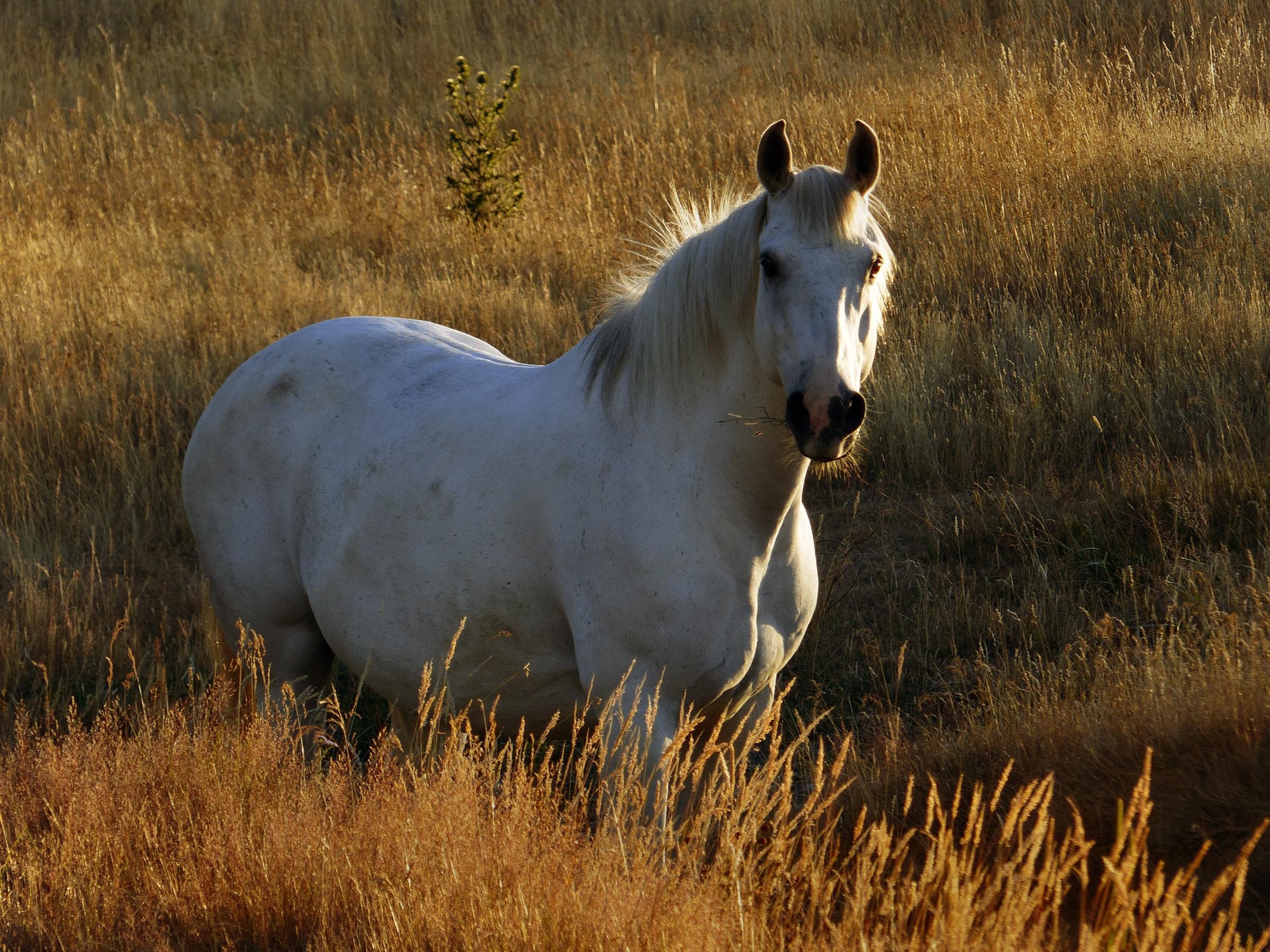 White horses are born white and stay white throughout their life. White horses may have brown, blue, or hazel eyes. "True white" horses, especially those that carry one of the dominant white (W) genes, are rare. Most horses that are commonly referred to as "white" are actually "gray" horses whose hair coats are completely white